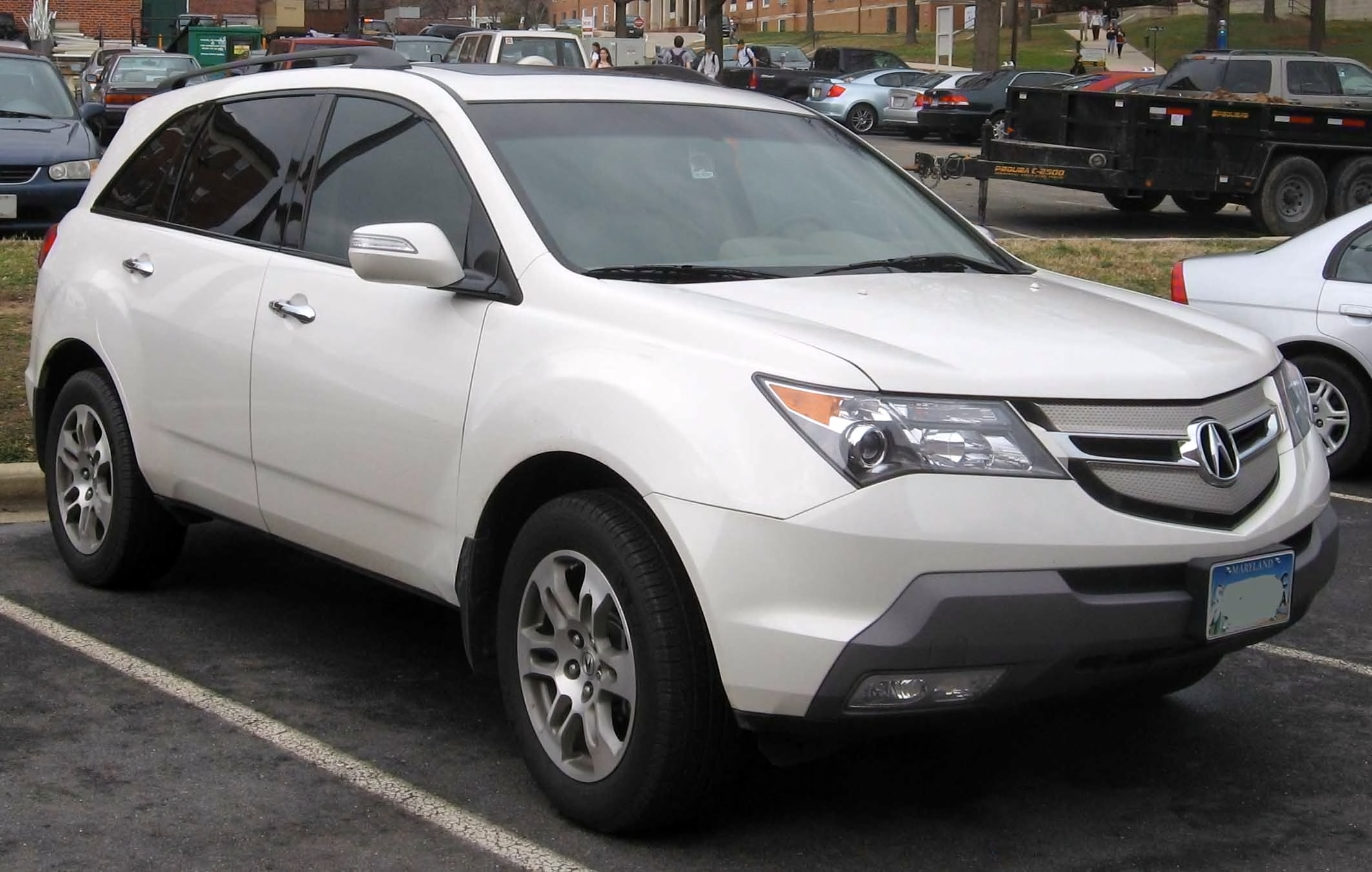 2007-2008 Acura MDX photographed in College Park, Maryland, USA.